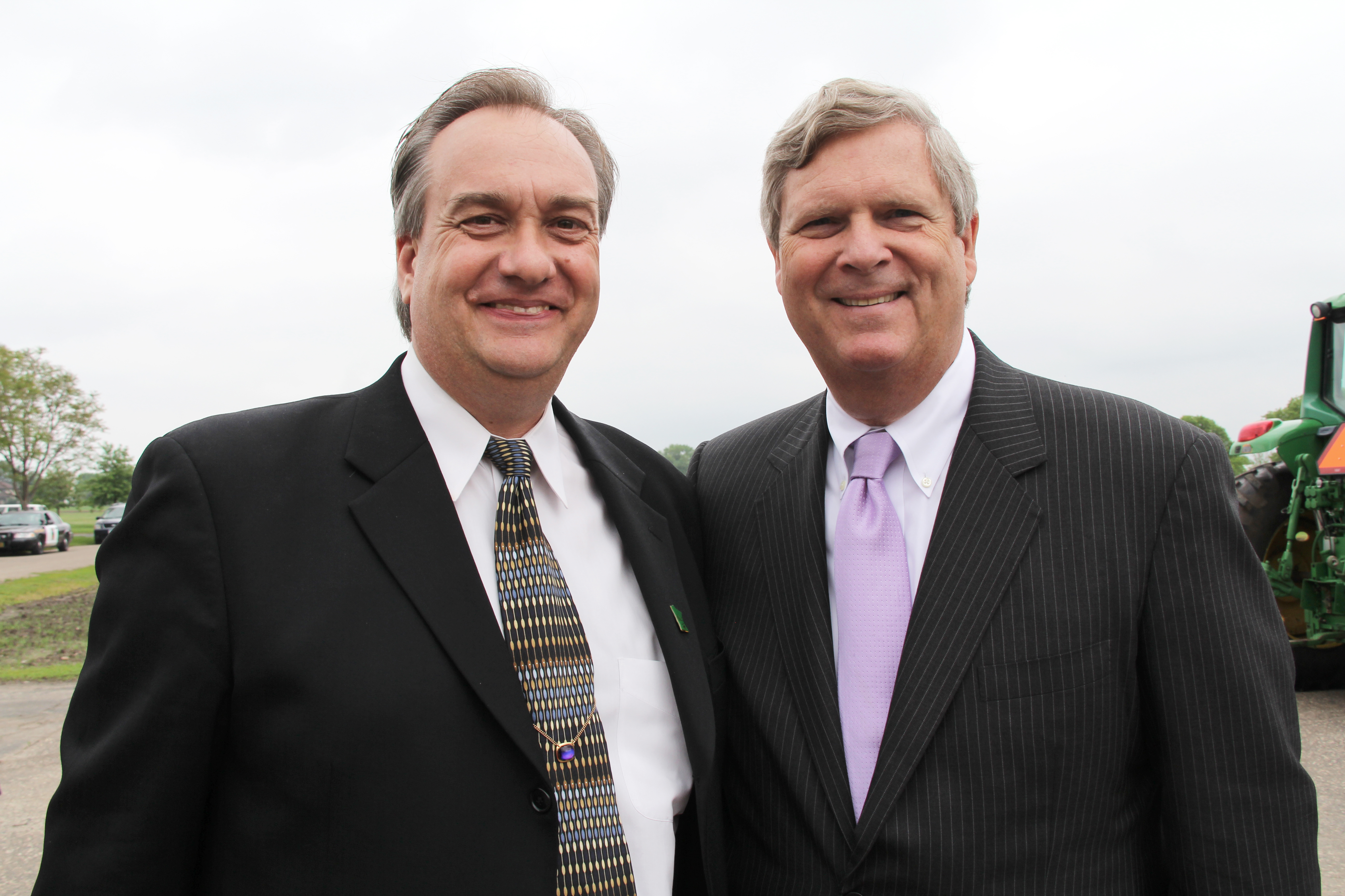 U.S. Congressman Rick Hansen (MN) and Agriculture Tom Vilsack stand together at the conclusion of the event launching the Minnesota Agricultural Water Quality Certification program at St. Paul University, St. Paul, MN on Monday, Jun. 10, 2013. This program is the first of its kind in the nation and is the product of a state-federal Memorandum of Understanding (MOU) signed by Minnesota Governor Dayton, Agriculture Secretary Vilsack and former Environmental Protection Agency (EPA) Administrator Lisa Jackson in January 2012. USDA photo by Julie MacSwain.